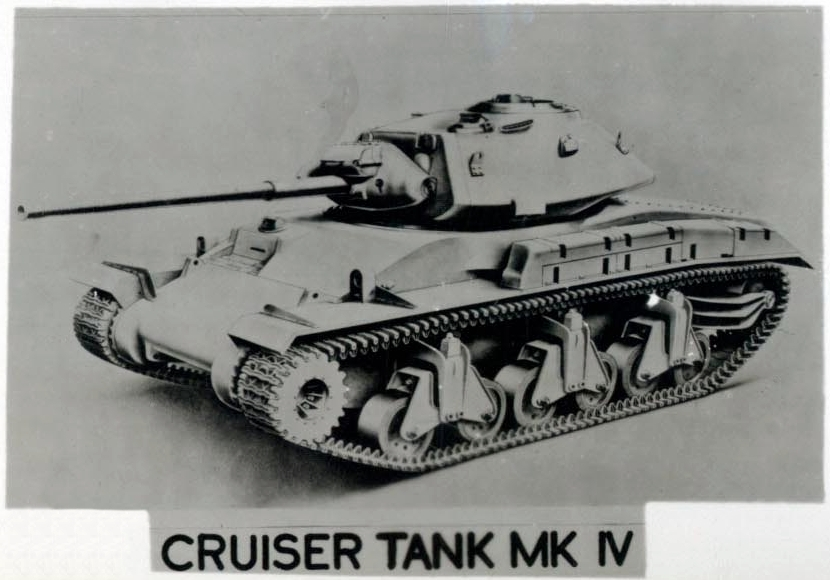 "Photograph D is an artist's drawing based upon the production drawings of the Mark IV tank which had just reached pilot model stage when production of armoured fighting vehicles ceased in Australia in the middle of 1943."